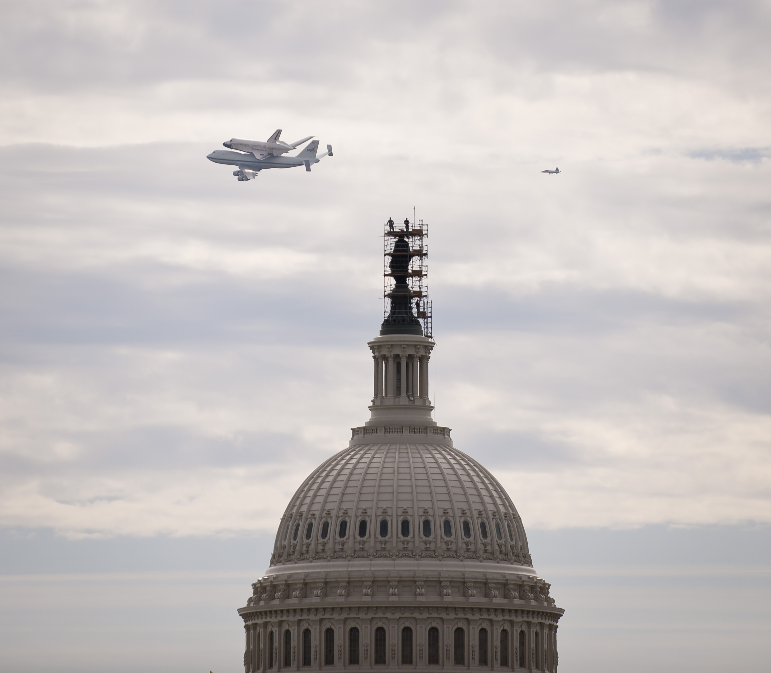 Space shuttle Discovery, mounted atop a NASA 747 Shuttle Carrier Aircraft, is seen as it flies near the U.S. Capitol, Tuesday, April 17, 2012, in Washington. Discovery, the first orbiter retired from NASA’s shuttle fleet, completed 39 missions, spent 365 days in space, orbited the Earth 5,830 times, and traveled 148,221,675 miles. NASA will transfer Discovery to the National Air and Space Museum to begin its new mission to commemorate past achievements in space and to educate and inspire future generations of explorers.